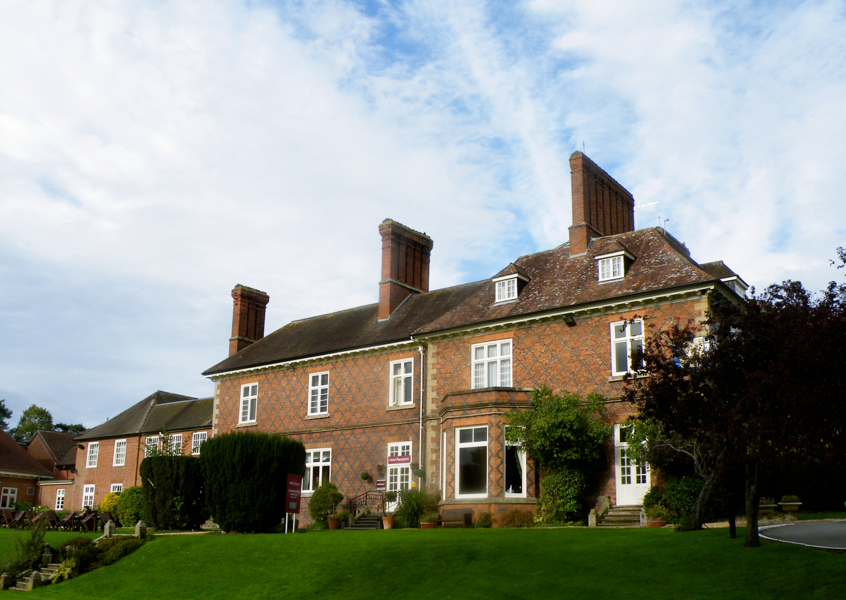 Albrighton Hall (Mercure Hotel), Ellesmere Road, Shropshire - 1